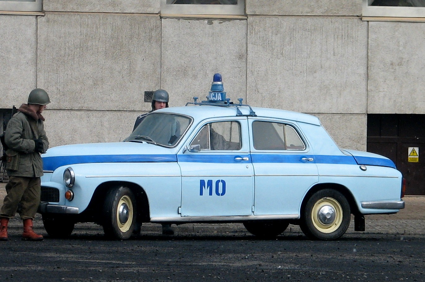 "Warszawa" - communist Citizens' Militia in People's Republic of Poland automobile.